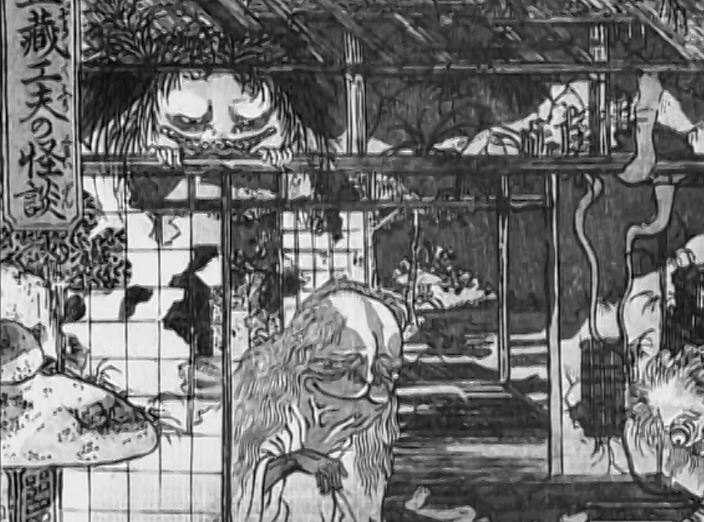 Japanese wood block illustration 19th century by Utagawa Kuniyoshi